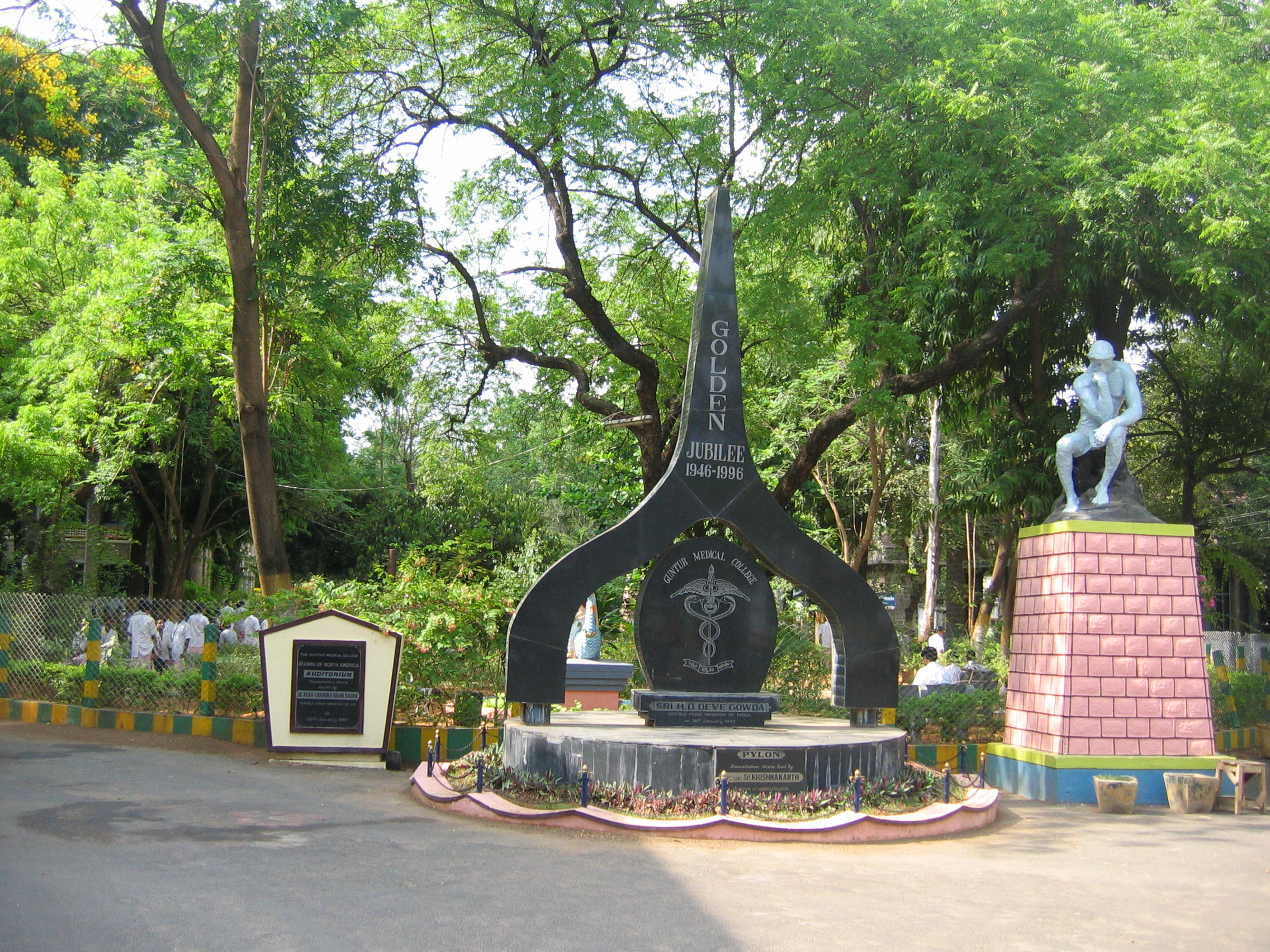 A pic of golden jubilee plaque at the main campus, Guntur Medical College.